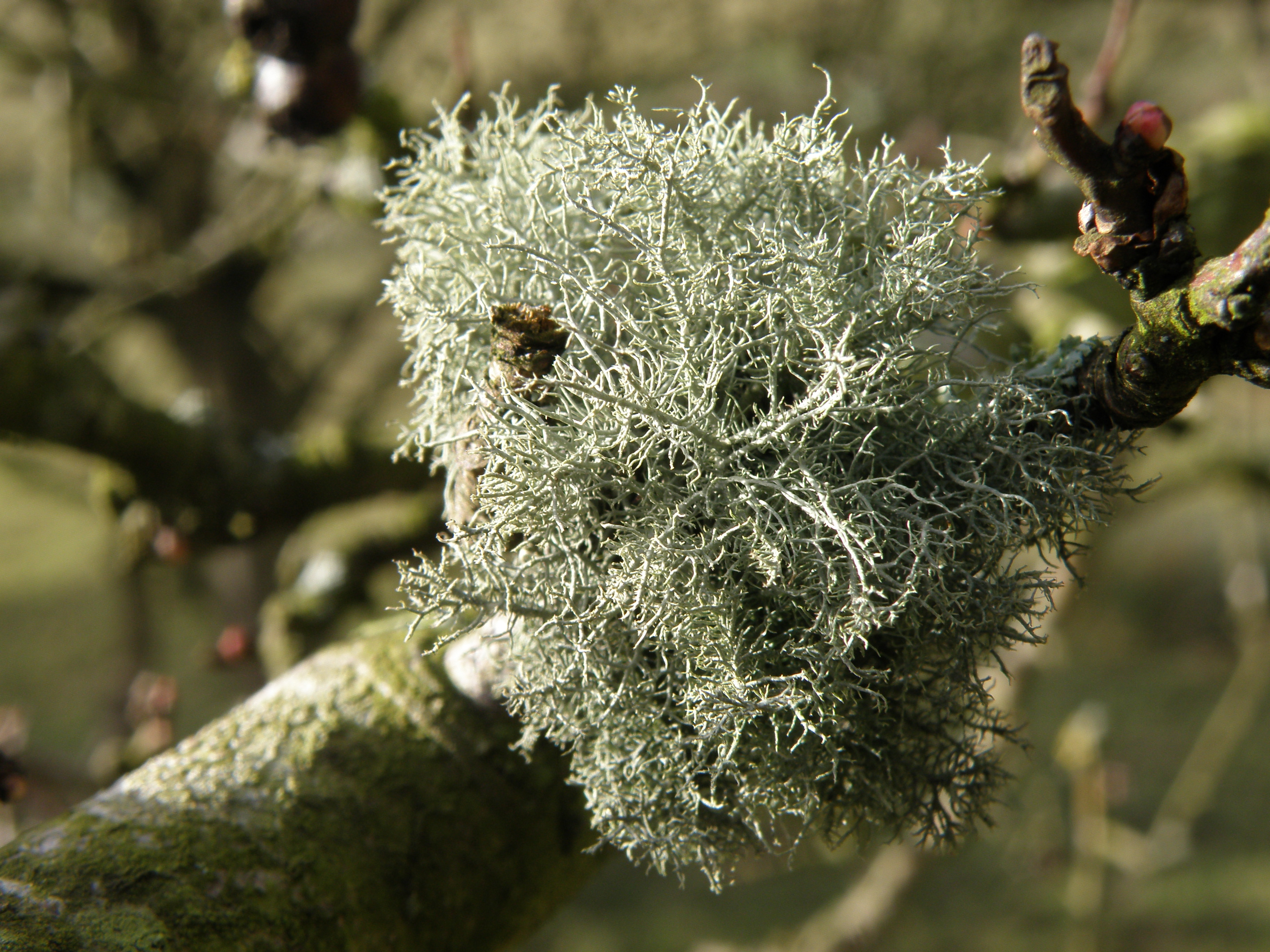 Cladonia portentosa, photographed near Ireleth, Cumbria, England. Identified using Grasses, Ferns, Mosses & Lichens of Great Britain and Ireland by Roger Phillips.